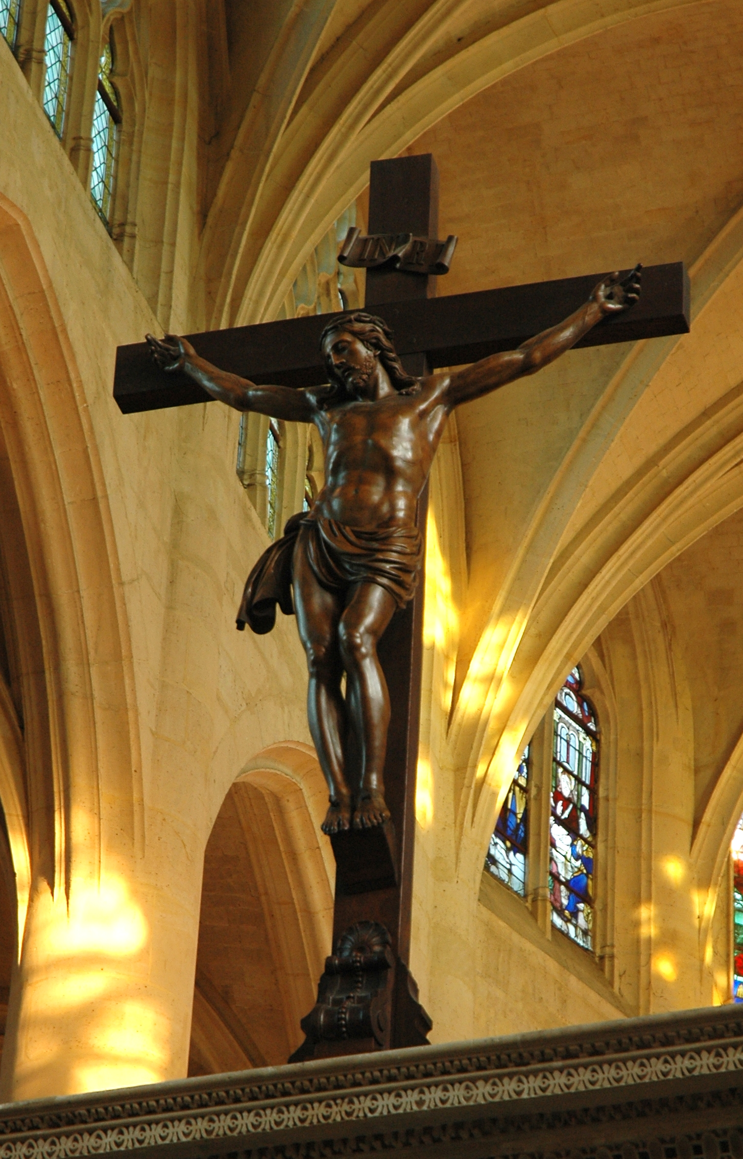 Great crucifix surmonting the jubé, Saint-Étienne-du-Mont, Paris.